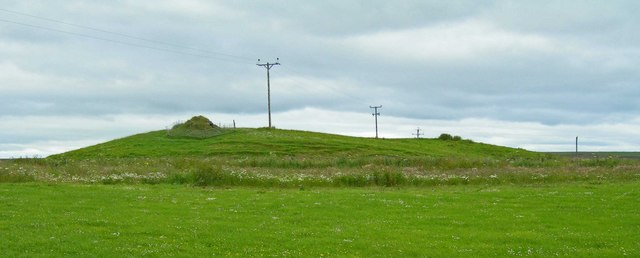 Long Howe Iron Age mound, Mainland Orkney This unexcavated elongated mound is situated immediately southwest of Mine Howe.